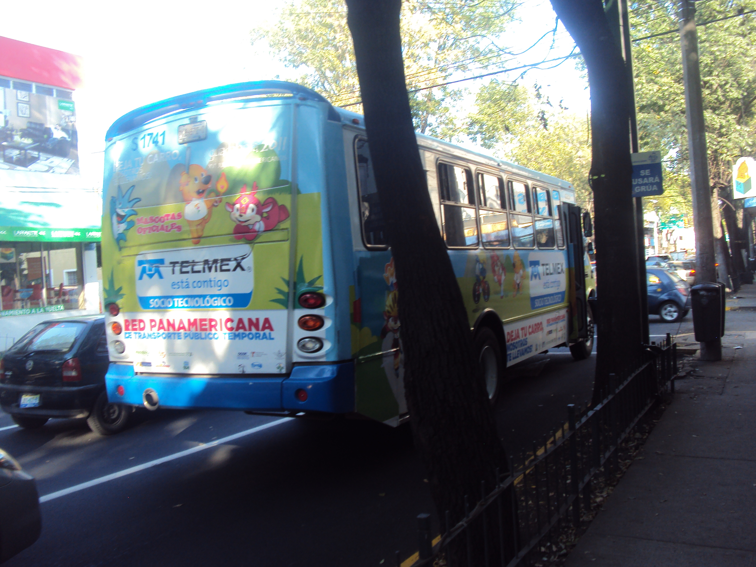 Bus used for transportation during the 2011 Pan American Games